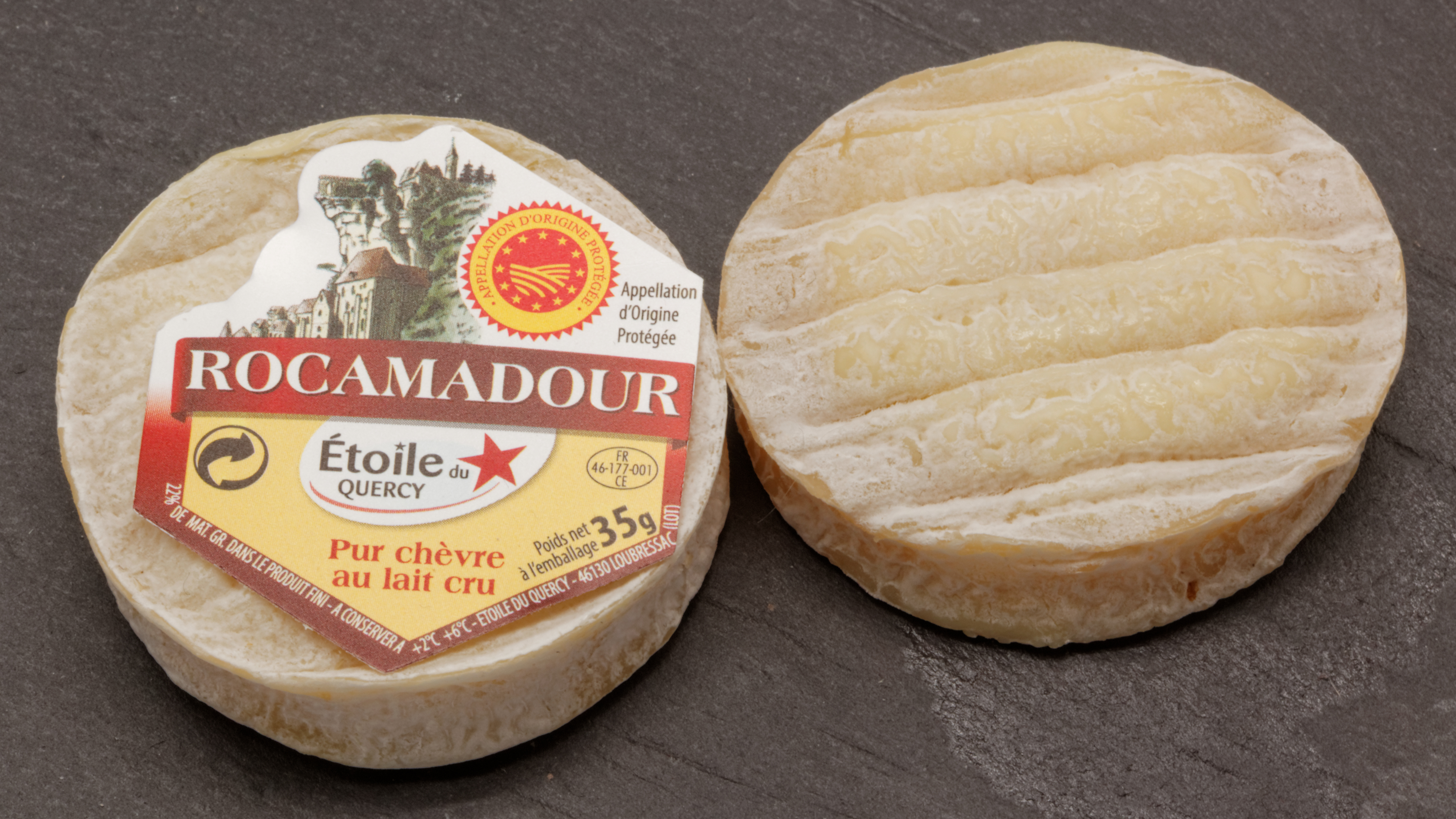 Rocamadour